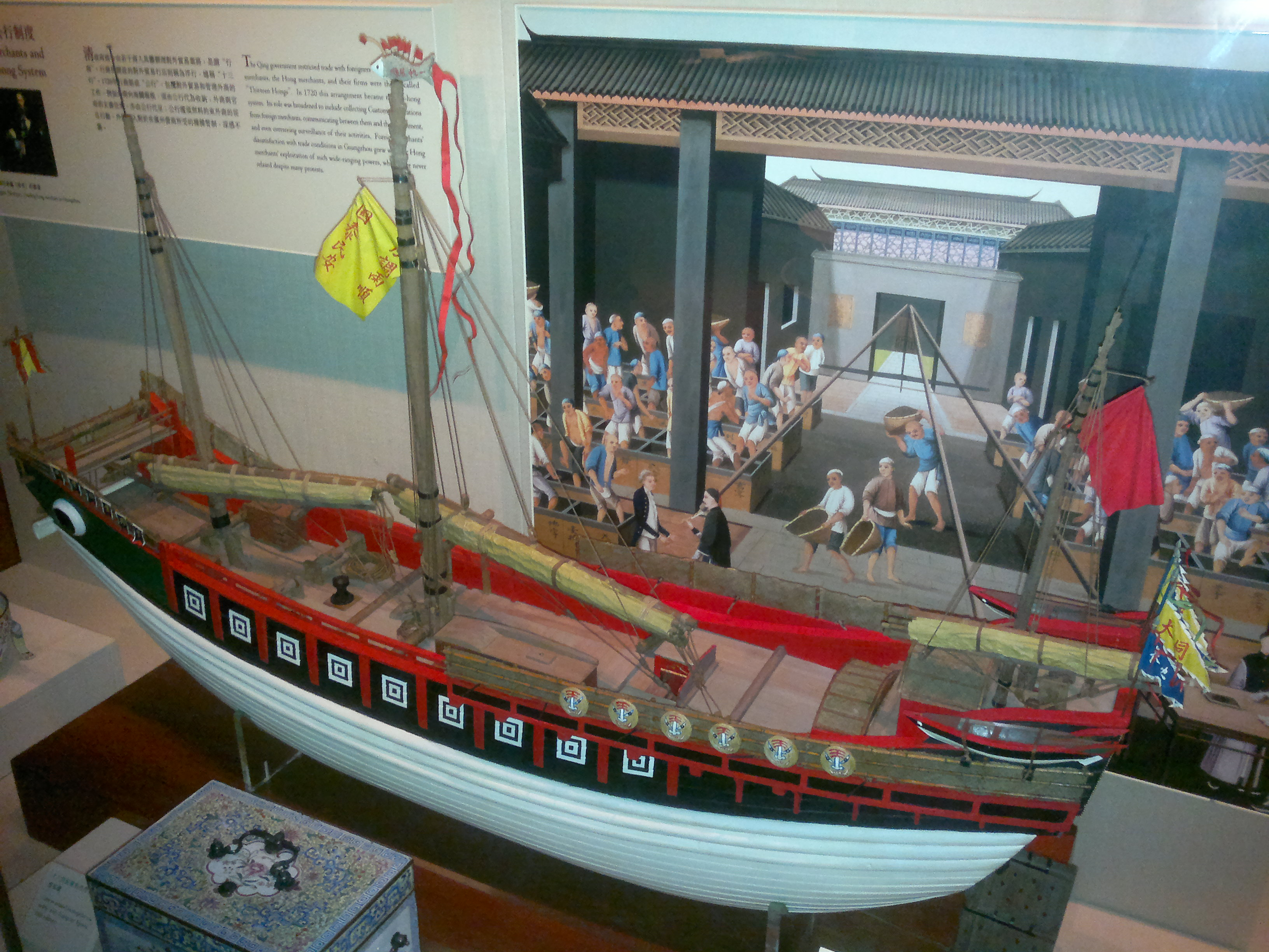 Keying in History Museum